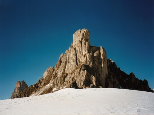 Passo Giau picture taken by user Idéfix 1999 earlier uploaded on Dutch Wikipedia as